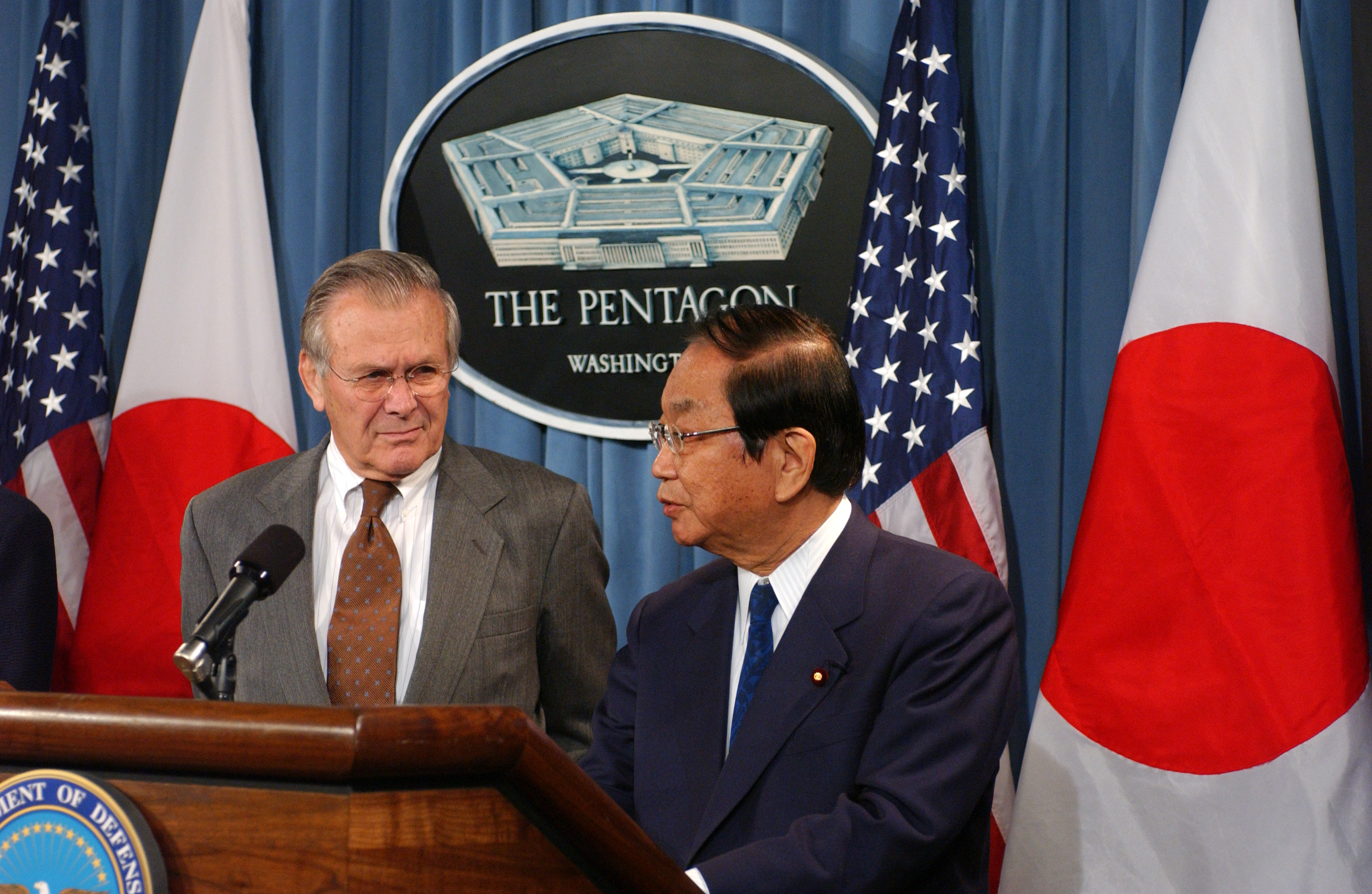 Defense Secretary Donald H. Rumsfeld listens to Minister of State for Defense of Japan Yoshinori Ohno.